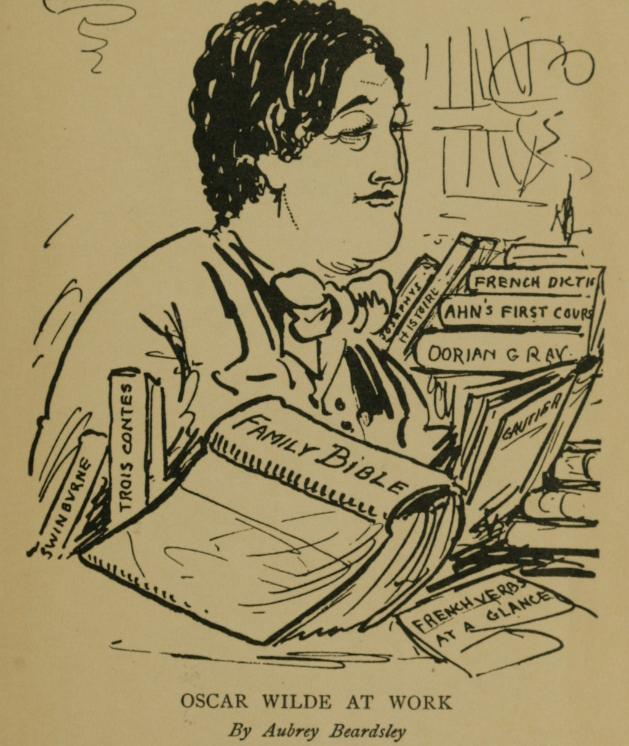 "Oscar Wilde at Work". Caricature drawing by Aubrey Beardsley